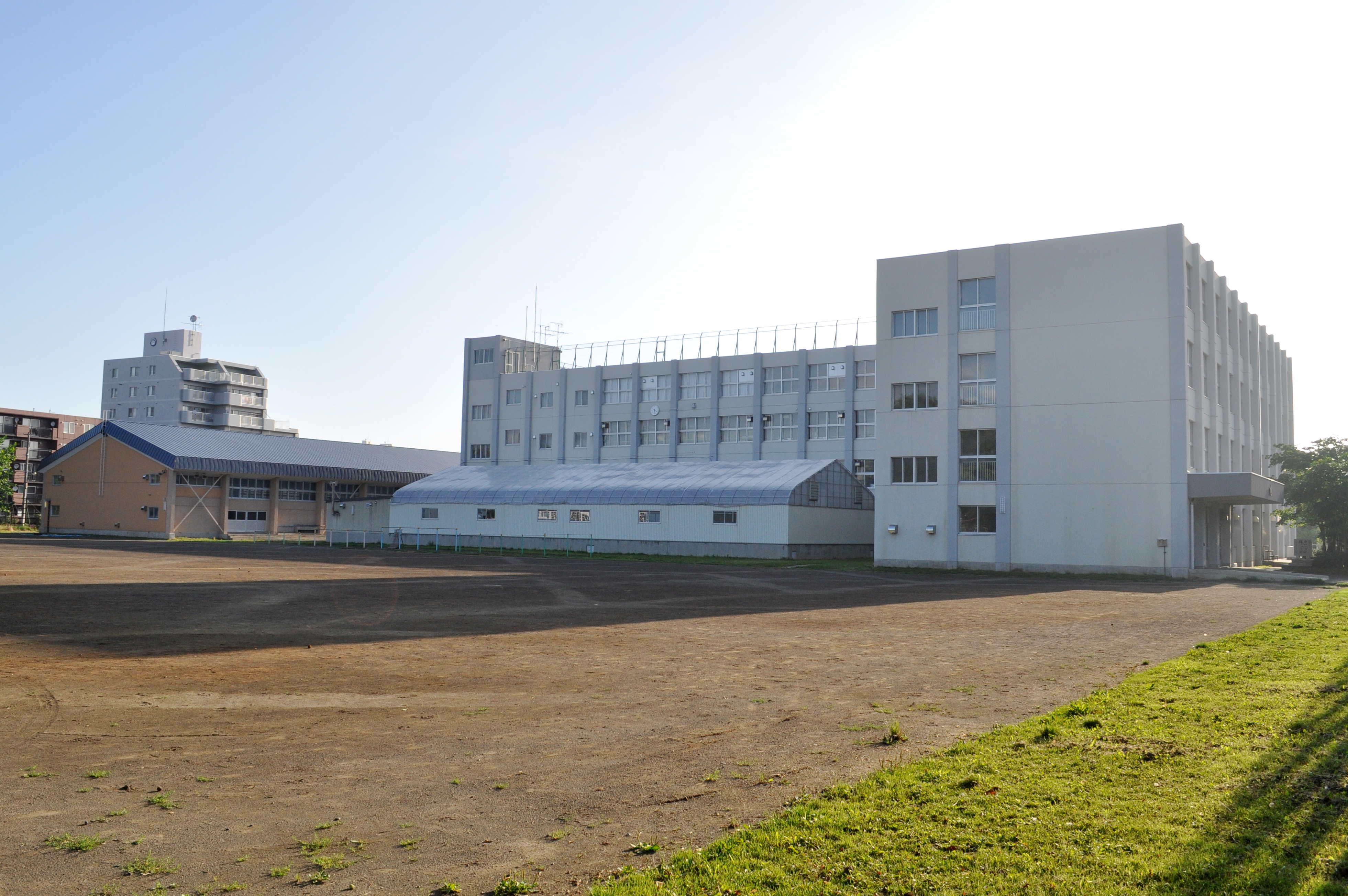 Entire view of Naebo Elementary School in Sapporo, Hokkaido, Japan.